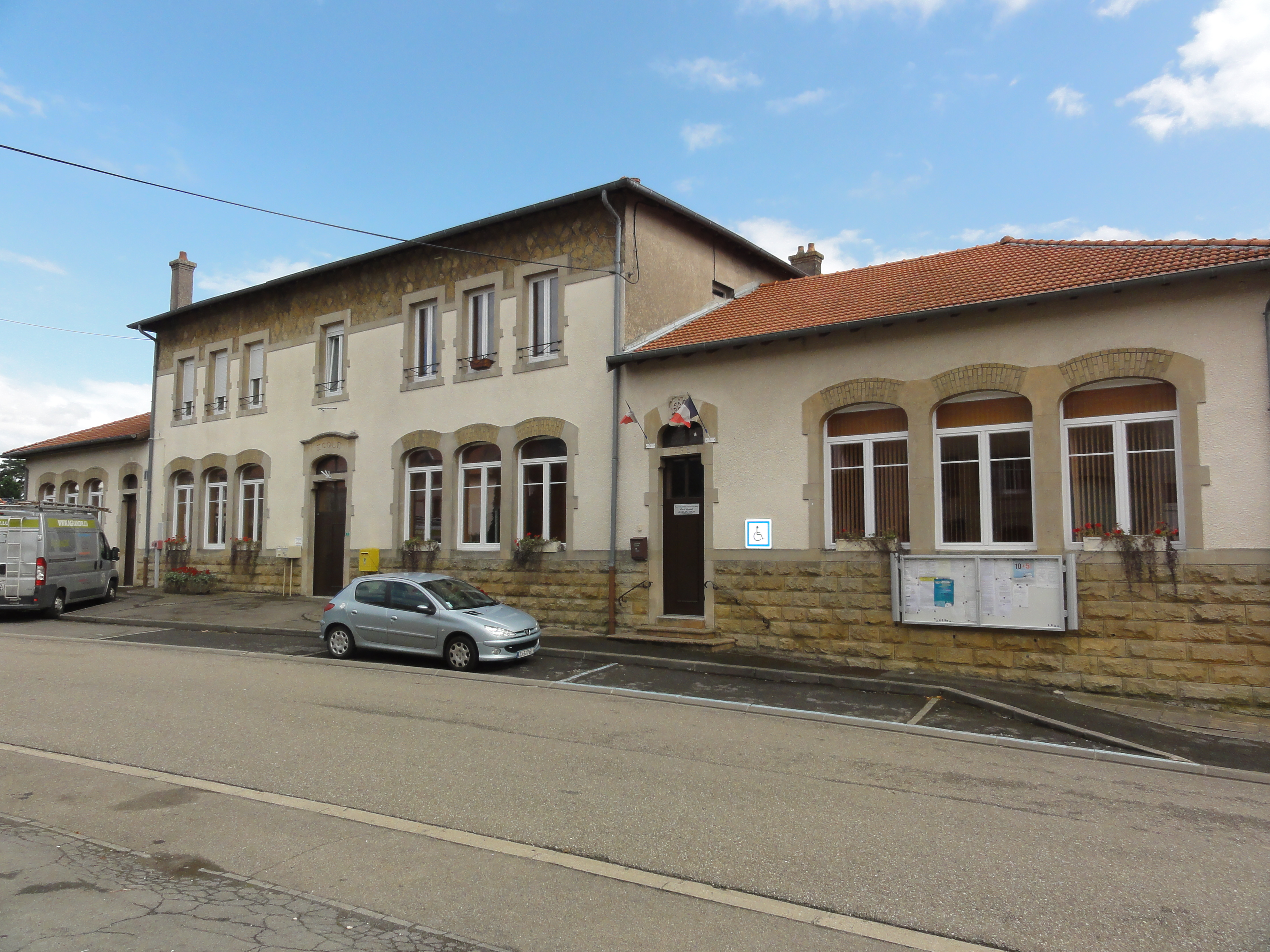 Boismont (Meurthe-et-M.) écoles et mairie